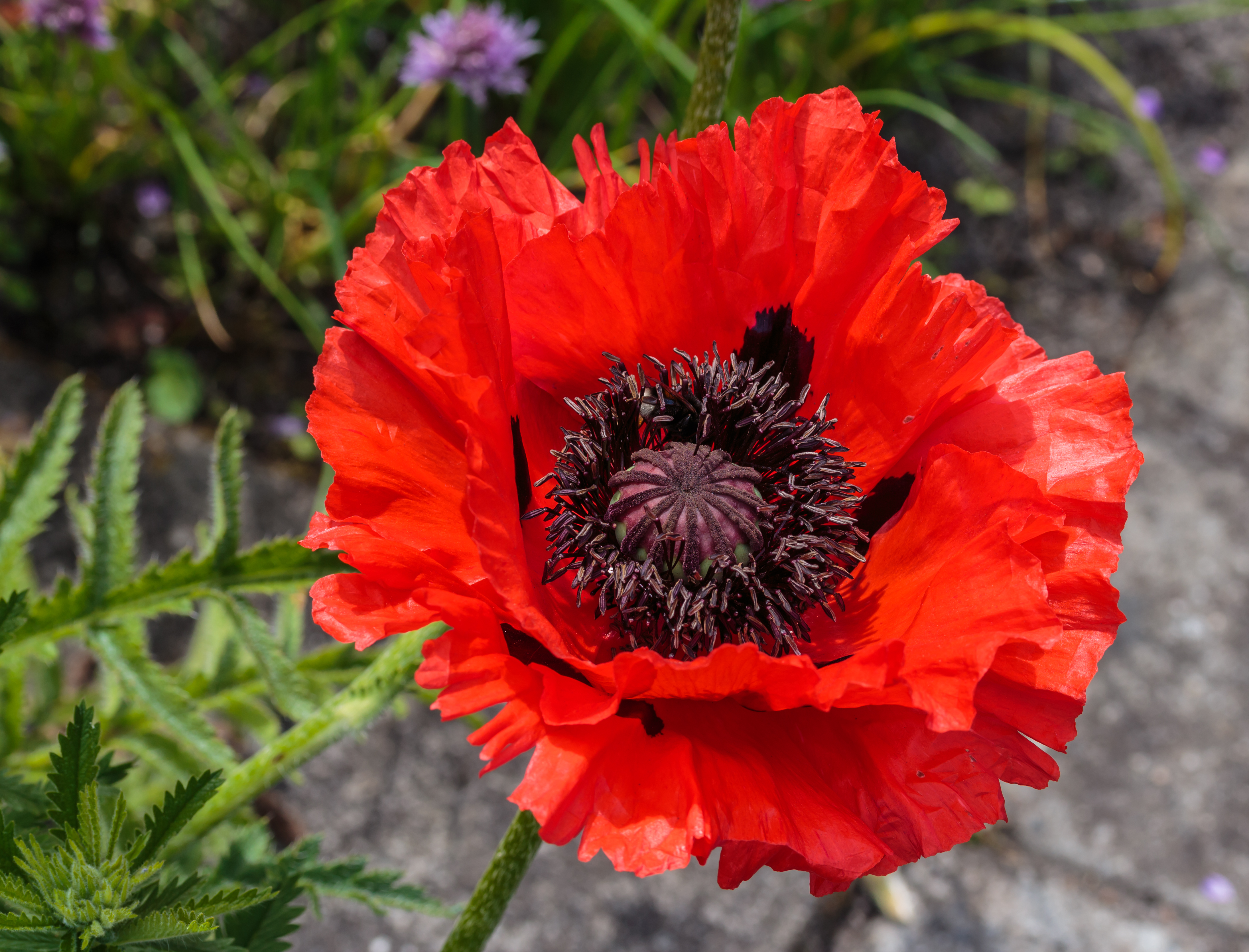 Papaver oriëntale. Location, Mien Ruys Gardens.